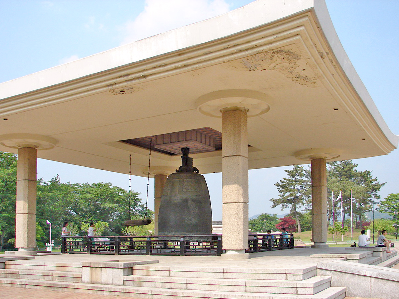 The Bell of King Seongdeok, known as the Emille Bell, a massive bronze bell at 19 tons is the largest in Korea. Cast in 771, the bell considered a masterpiece of Unified Silla art and is it is now on display in the National Museum of Gyeongju. The bell is designated National Treasure of Korea #29.